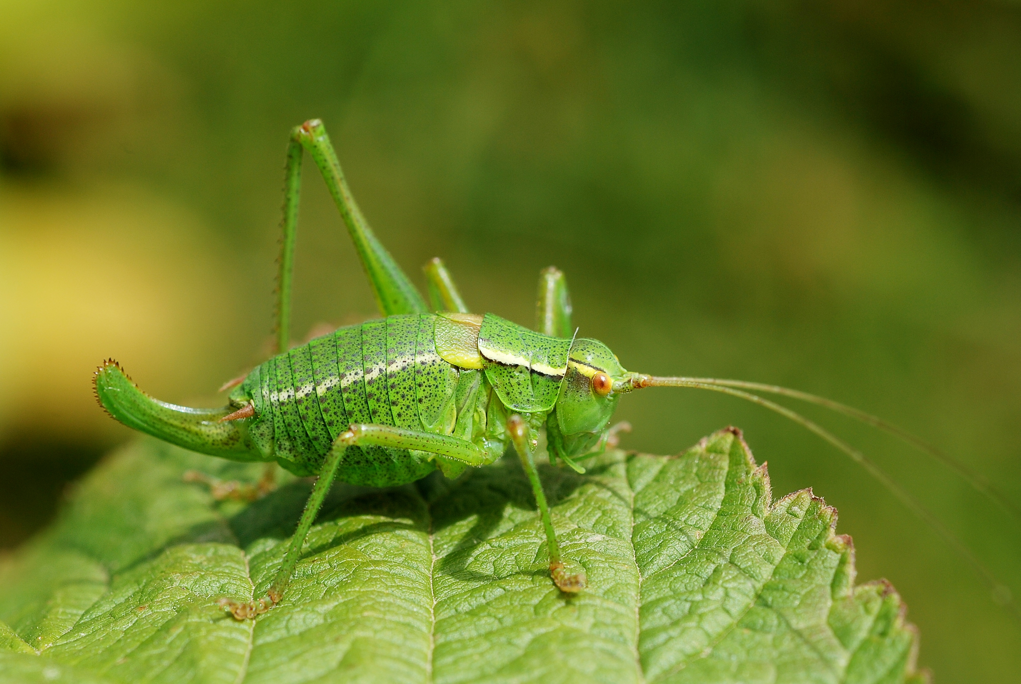 The females are very difficult to identify